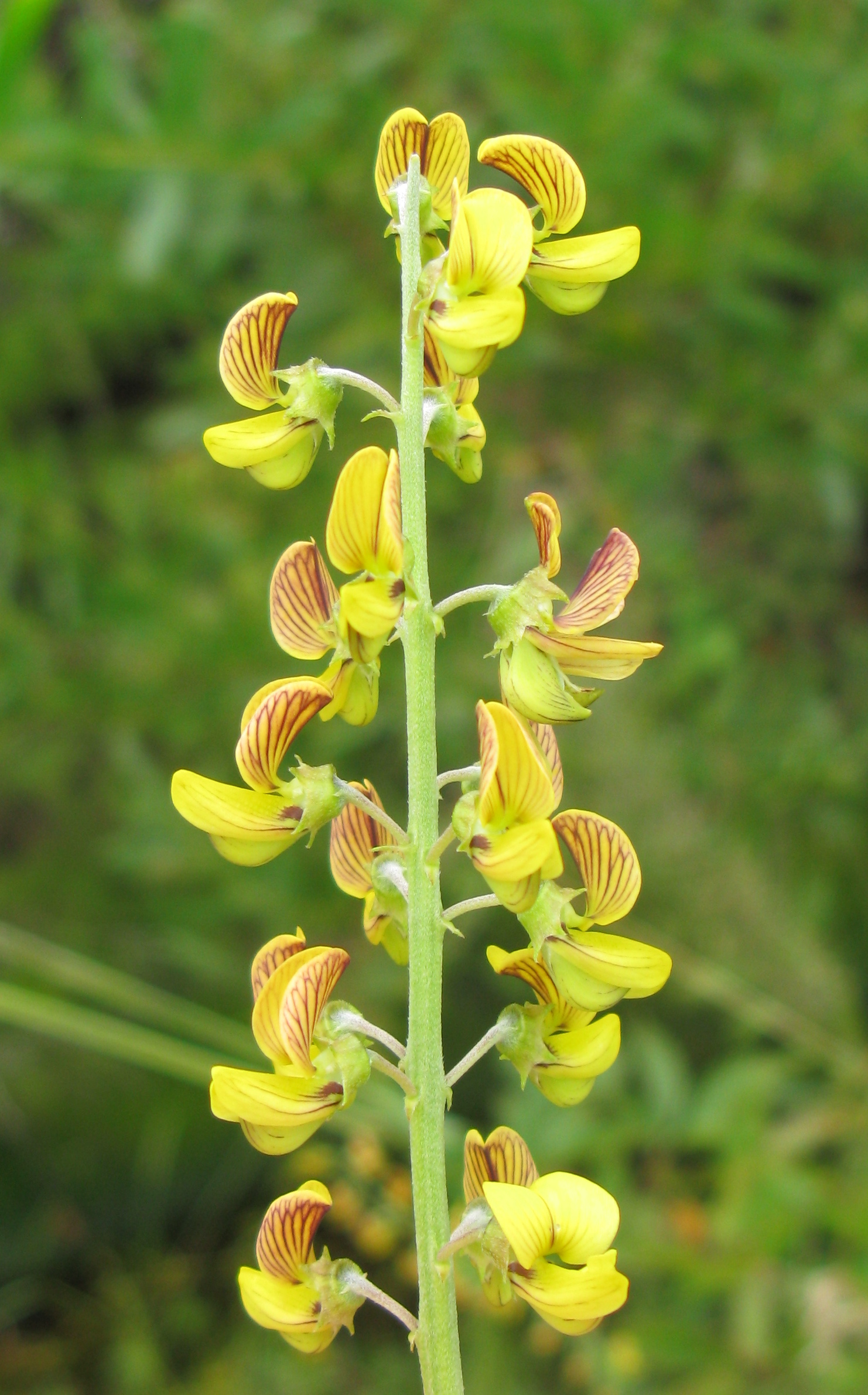 Flowerheads are long racemes with about 40 pea-like flowers. Petals are yellow with brown veins.